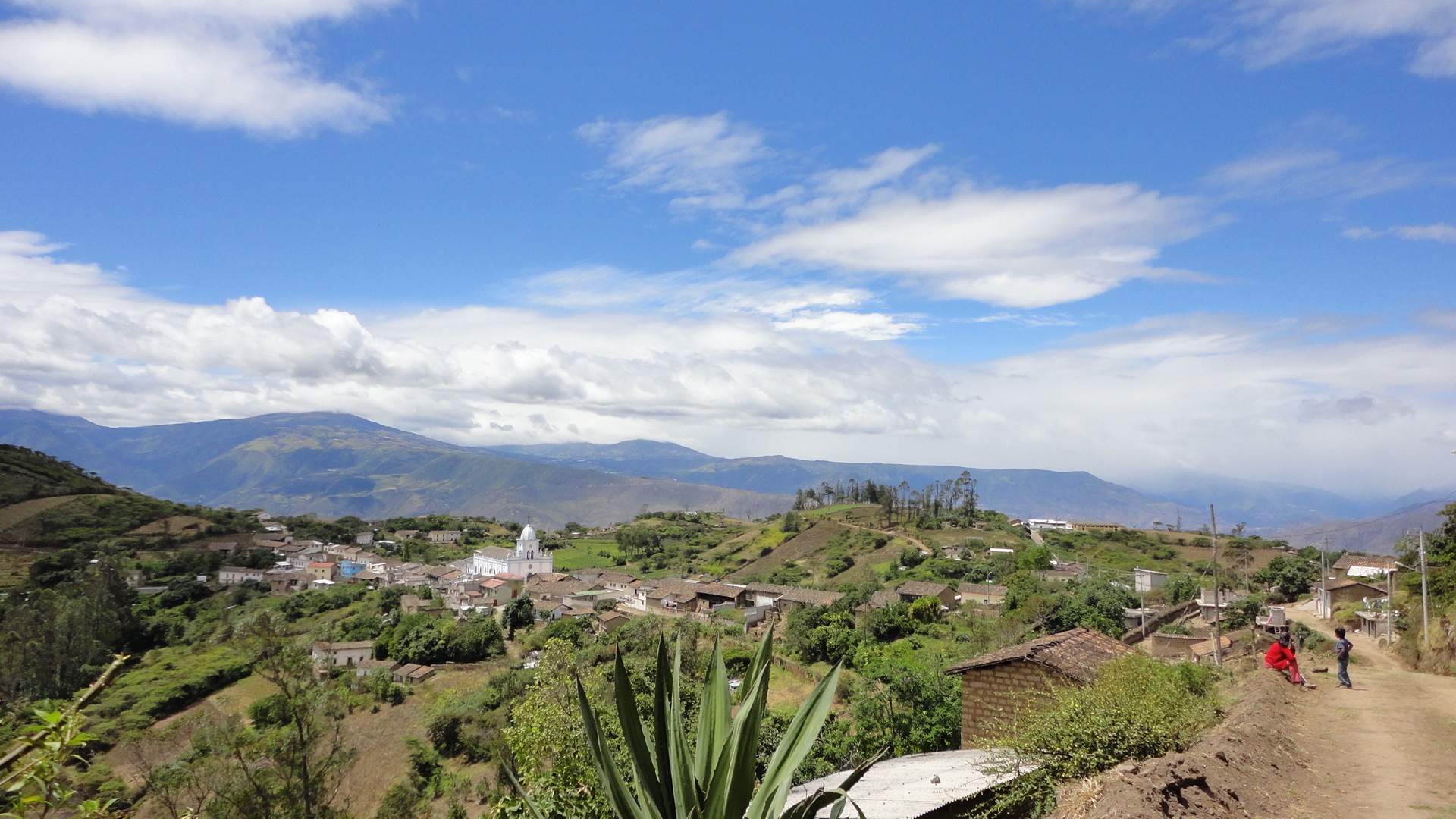 Vista Panorámica de Pablo Arenas